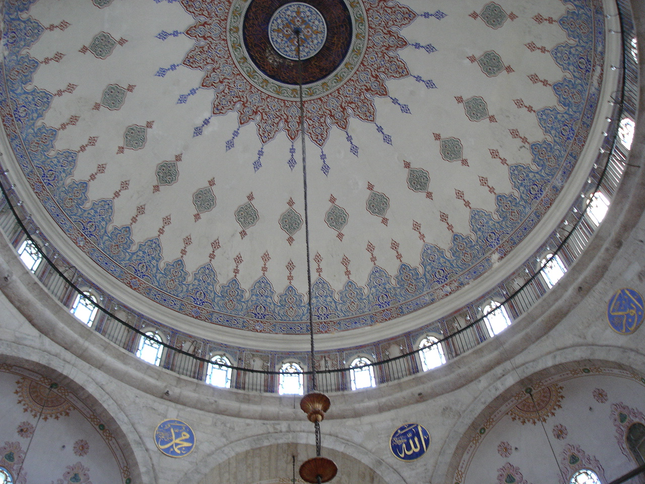 Istanbul - The dome in the mosque in Eyüp. Picture by: Giovanni Dall'Orto, May 30 2006.